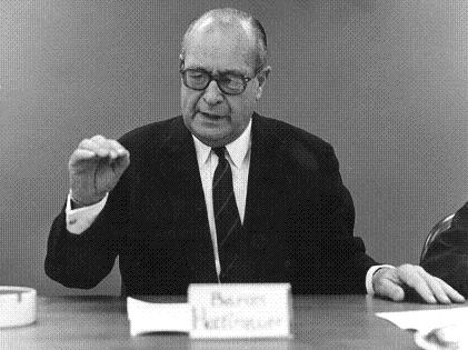 portrait